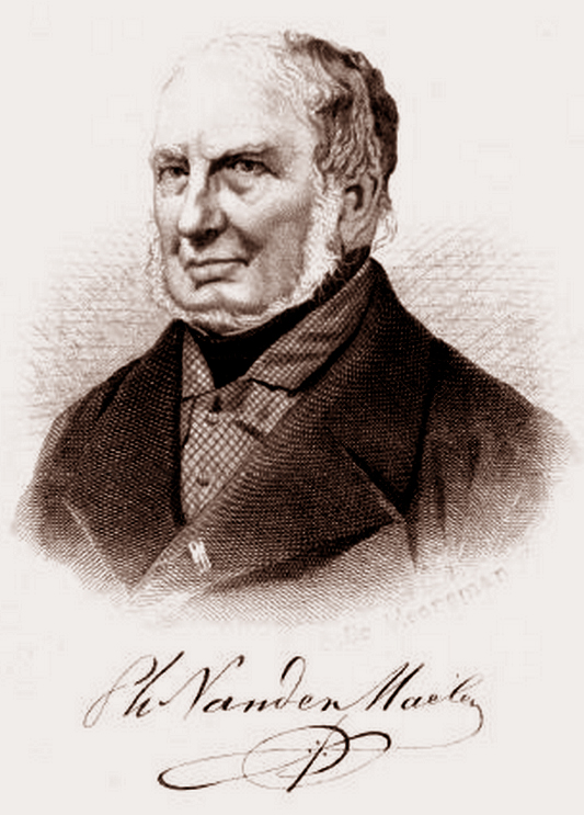 Philippe Vandermaelen (1795-1869), Belgian cartographer and geographer. Copper engraving by François de Meersman (1830-1905, Wikidata: Q21396000), Inserted between pages 108 and 109 of Annuaire de l'Académie royale de Belgique, Brussels 1873, in-16.